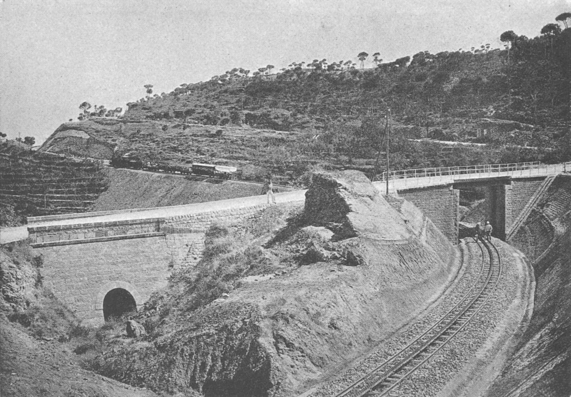 Traversée de la route de Damas a Jamhour